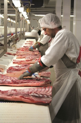 Smithfield Romania, Divizia Carne Proaspătă